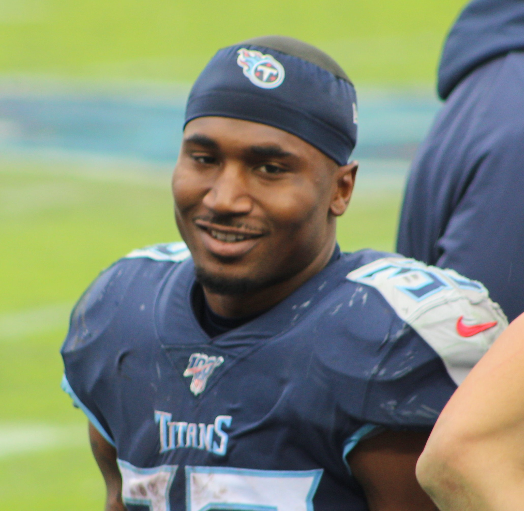 Lewis with the Titans on December 22, 2019